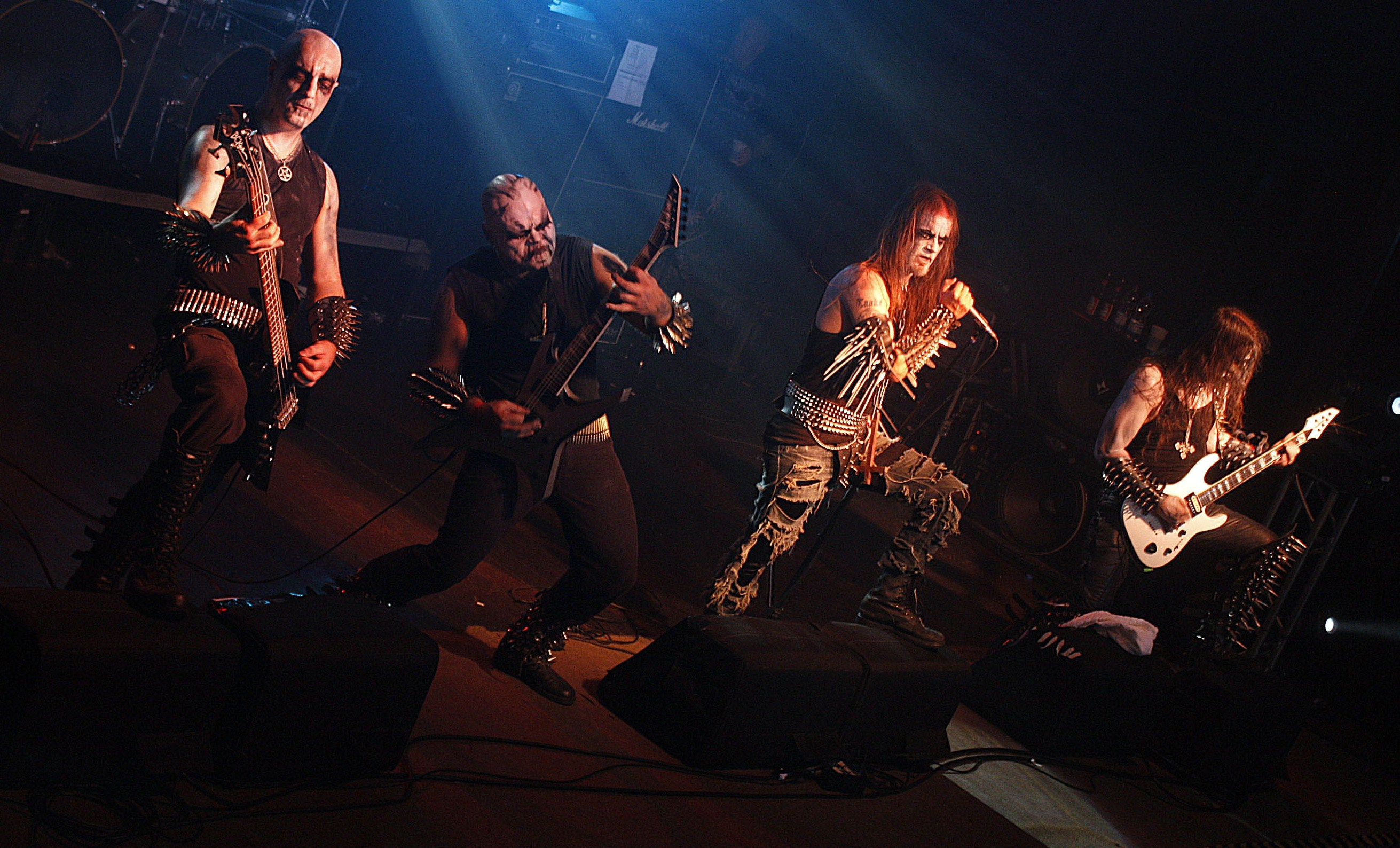 Gorgoroth performing live at Setembro Negro fest (Sao Paulo, Brazil).